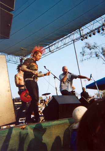 Lars Frederiksen & Skinhead Rob (background)